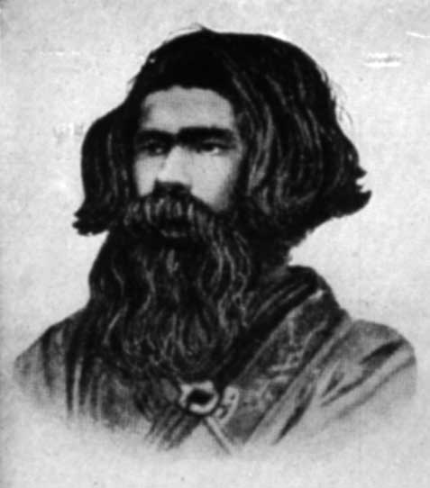 Asiatic Types - Ainu of Japan